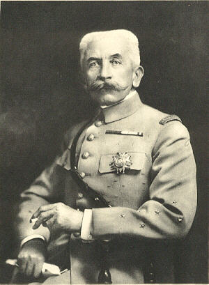 Louis Hubert Gonzalve Lyautey (November 17, 1854 - July 27, 1934) was a French general, the first Resident-General in Morocco.